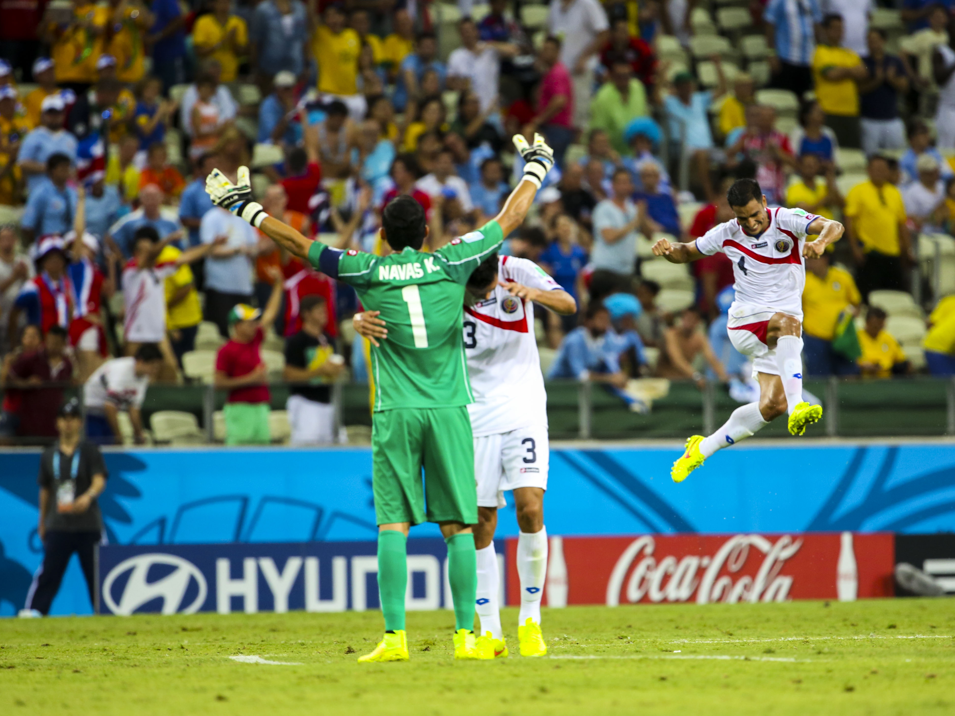 Uruguay and Costa Rica match at the FIFA World Cup 2014-06-14